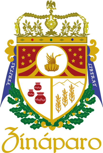 HERALDICA MUNICIPAL DE ZINAPARO, EN EL ESTADO DE MICHOACÁN. MEXICO